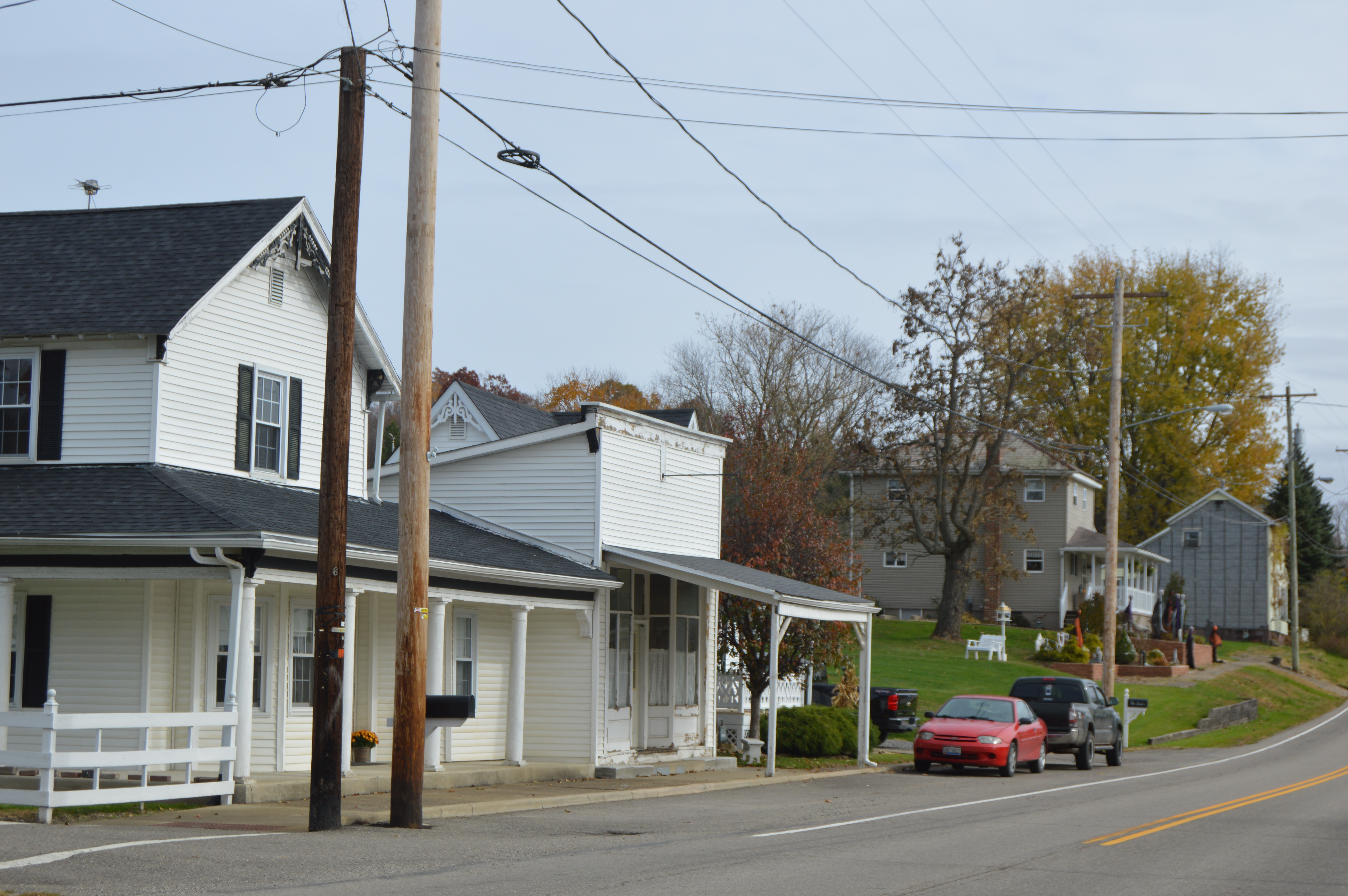 Buildings on the northern side of Main Street (State Route 265) east of the Church Street intersection in Salesville, Ohio, United States.